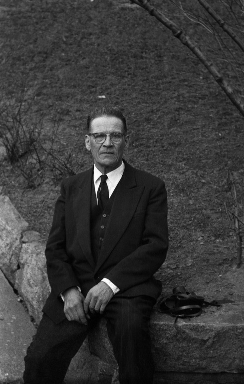 Photograph of the Finnish demographer Väinö Kannisto (1916–2002).